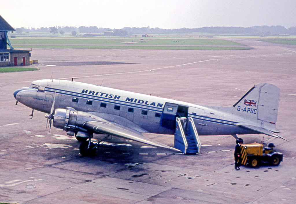 Douglas C-47B Dakota G-APBC of British Midland Airways at Manchester Ringway Airport in 1965